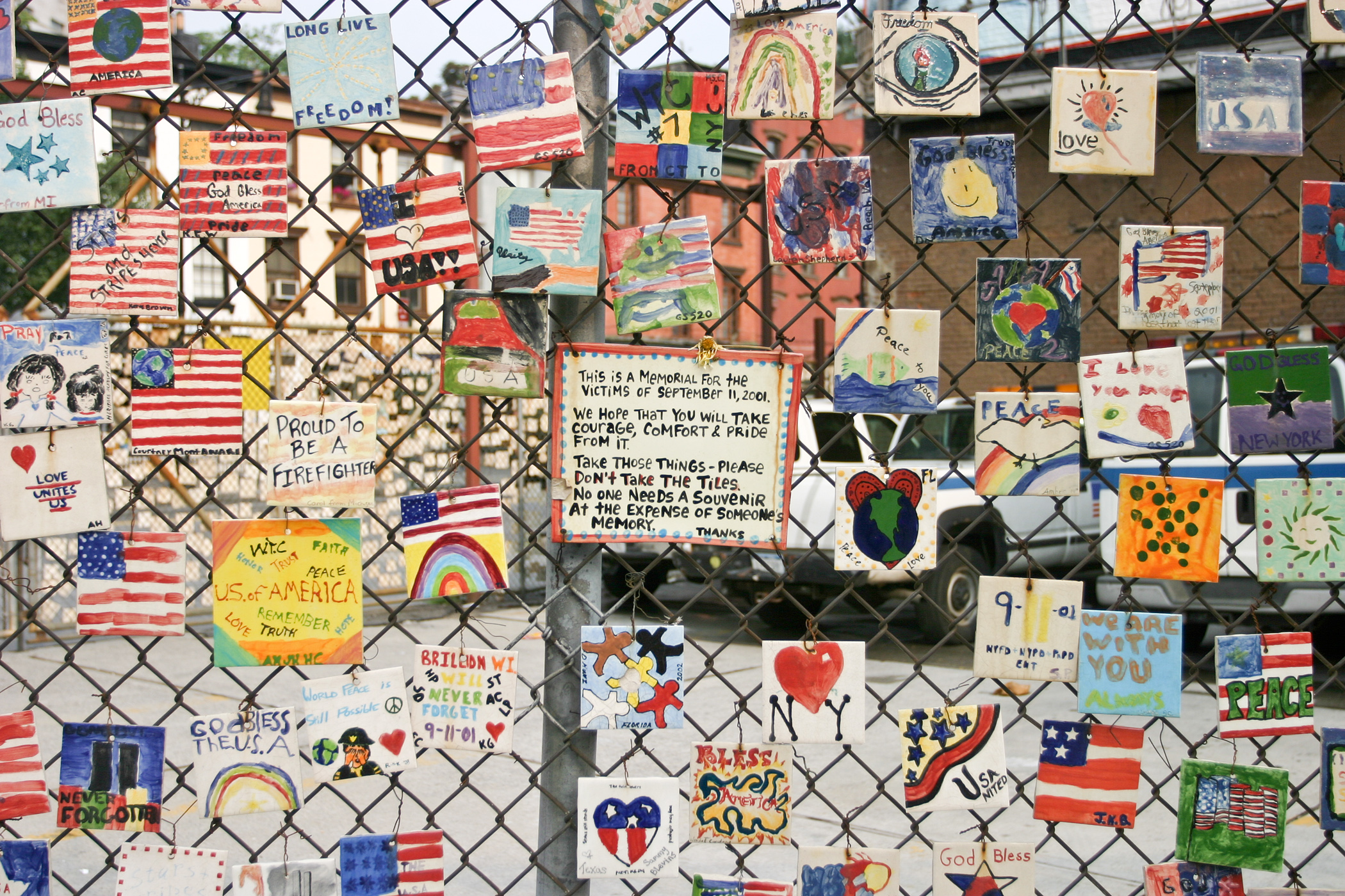 A small monument to the victims of the September 11th attacks on the fence of a car lot on Greenwich and Seventh Avenues in New York City. Taken by myself with a Canon 10D and 17-40mm f/4L lens.